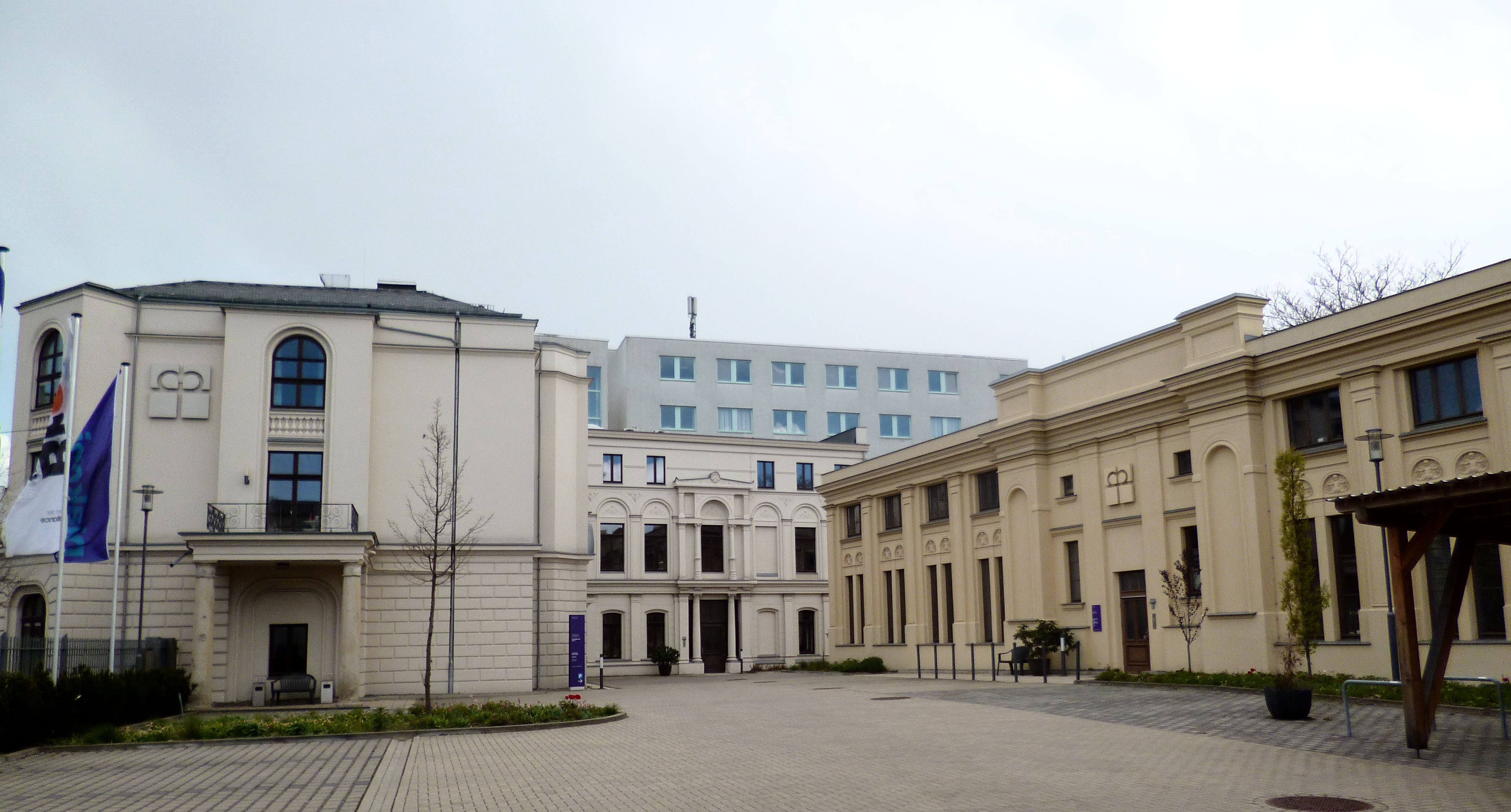 House No. 44 Merseburger Strasse, former factory villa and drawing room, Halle (Saale)